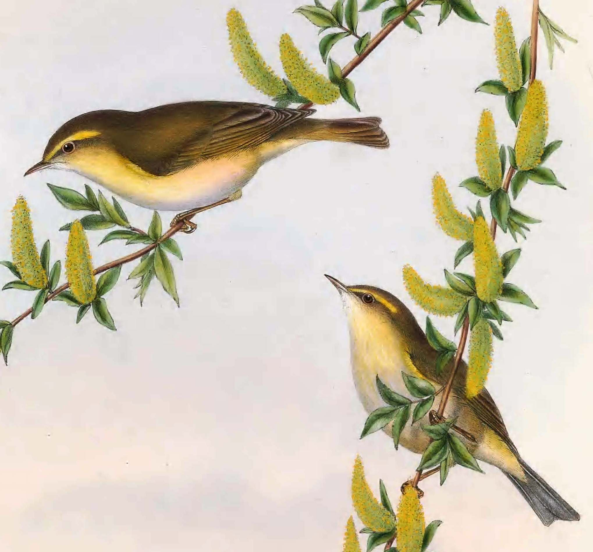 Phylloscopus trochilus. John Gould.